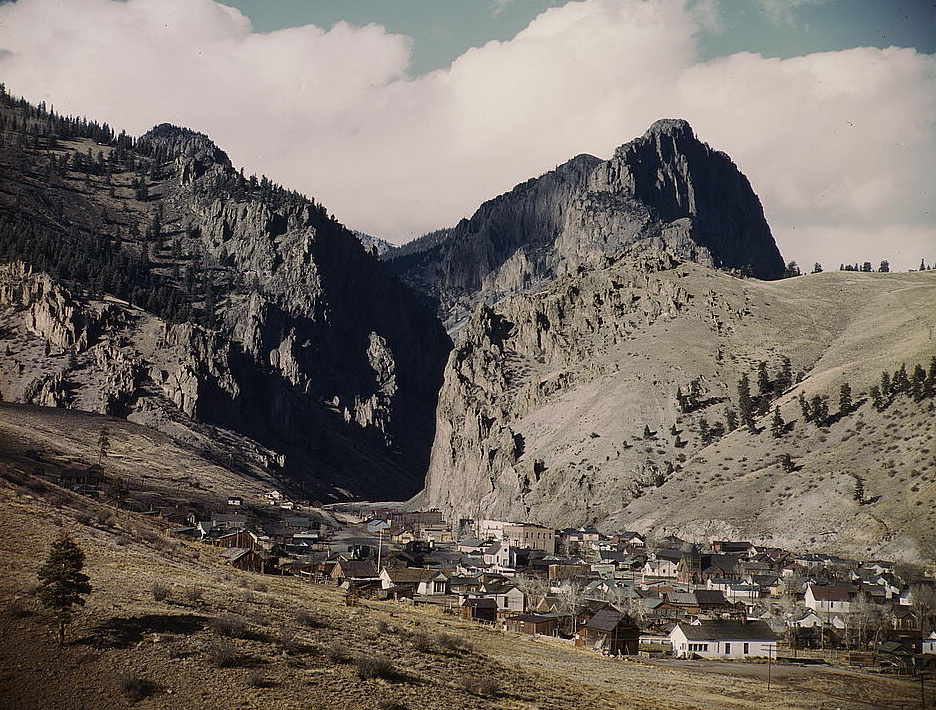 Old lead mines here have been reopened, Creede, Colo. Creede for many years was "a ghost town," but has resumed the activities that made it an important lead producing center years ago, and is now producing much vitally needed metal for the war effort 1 transparency : color. Notes: Title from FSA or OWI agency caption.